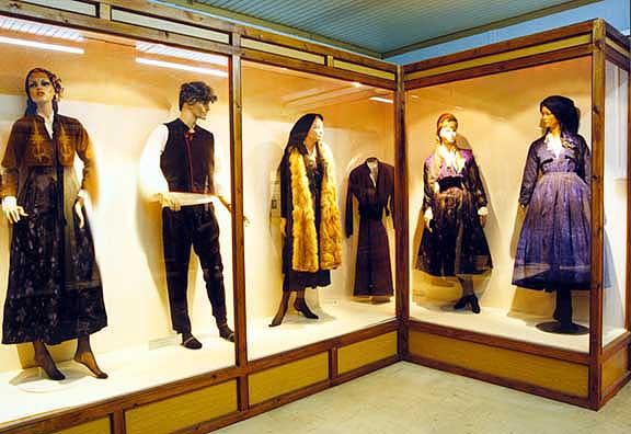 Traditional Costumes, image from the Folklore Museum, Yannitsa, Central Macedonia, Greece